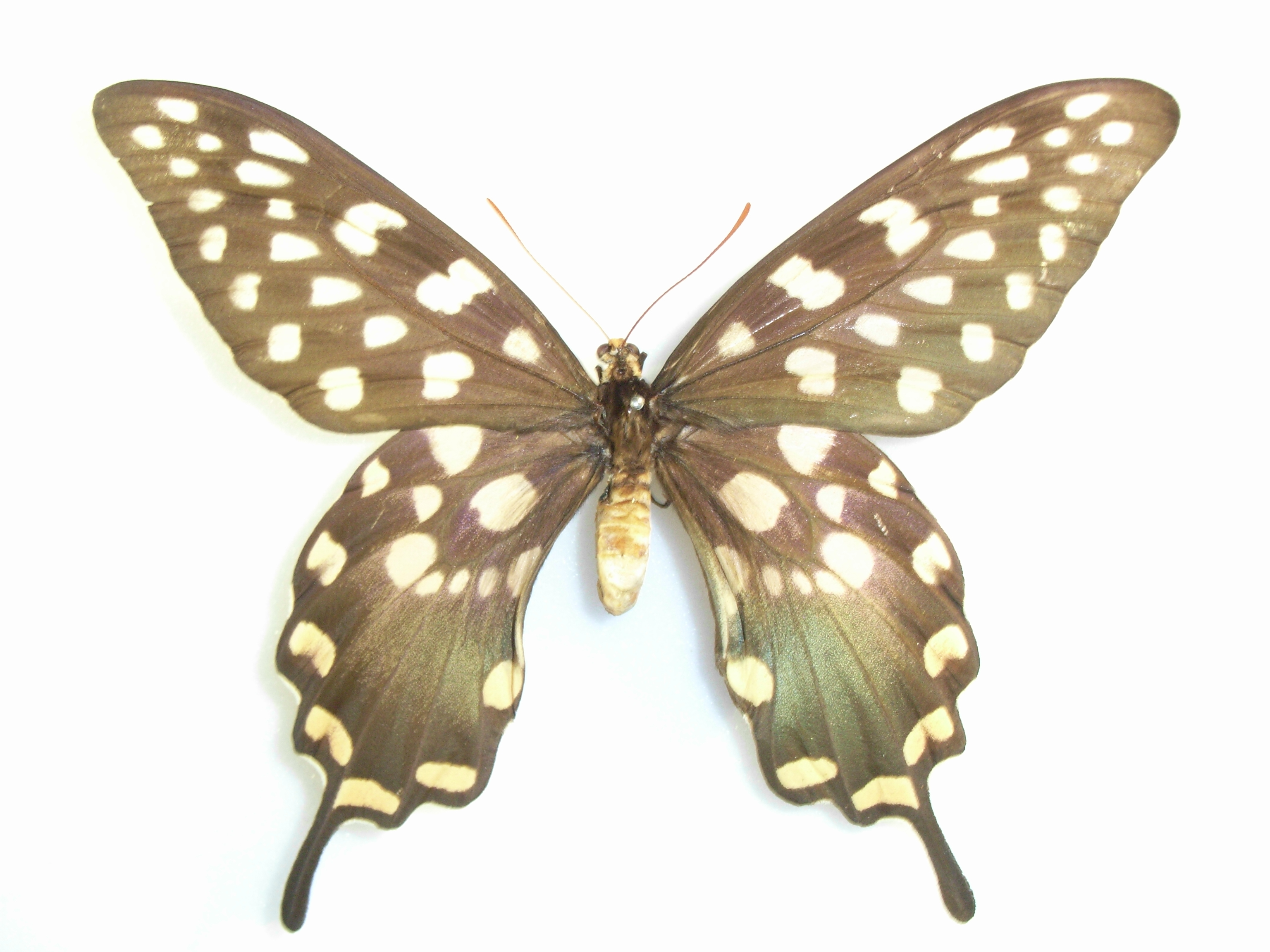 Pharmacophagus antenor (Drury, [1773]) Female